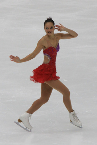 Sarah MEIER at the 2009 NHK Trophy.